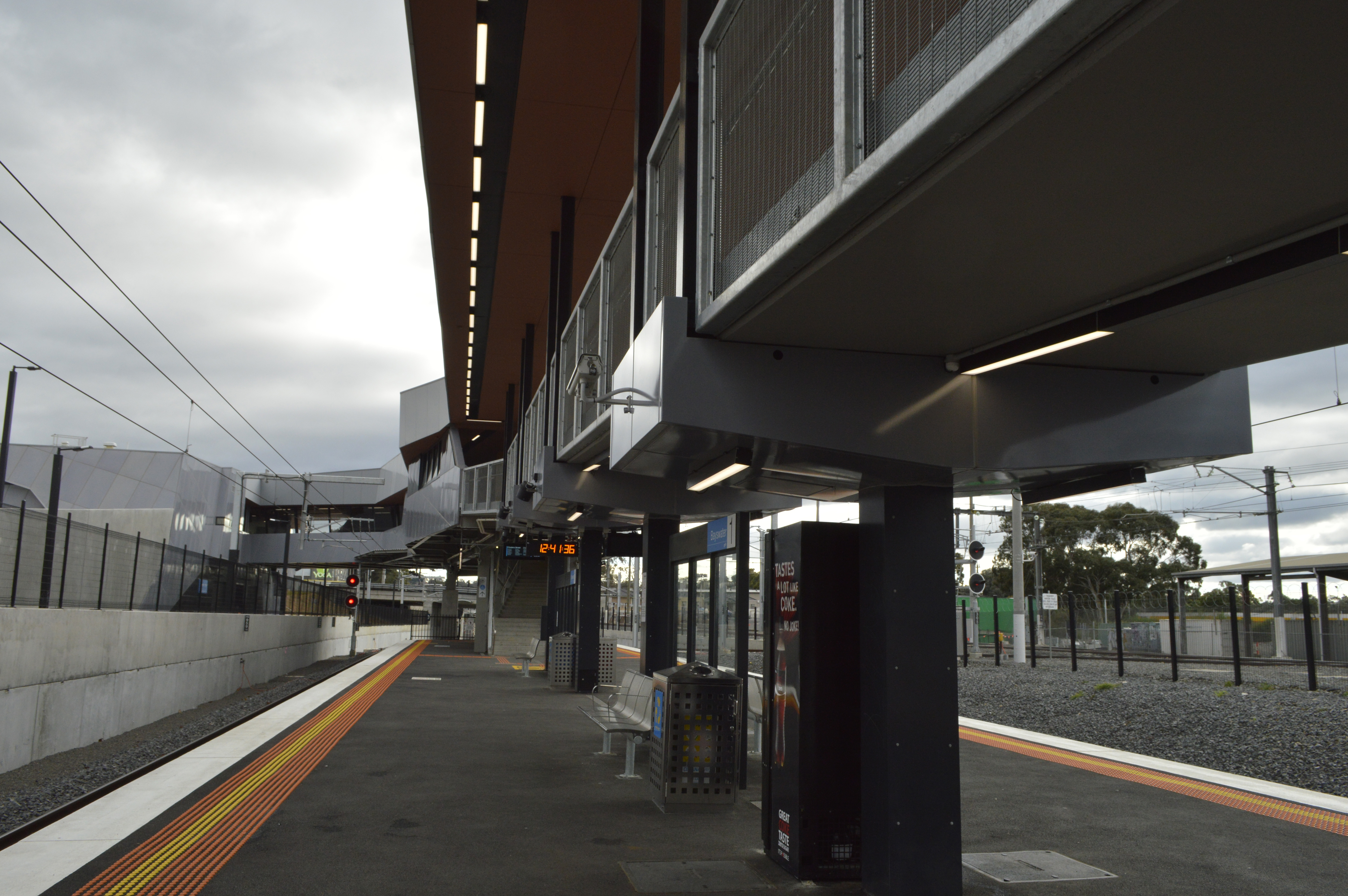 Looking north in July 2017.